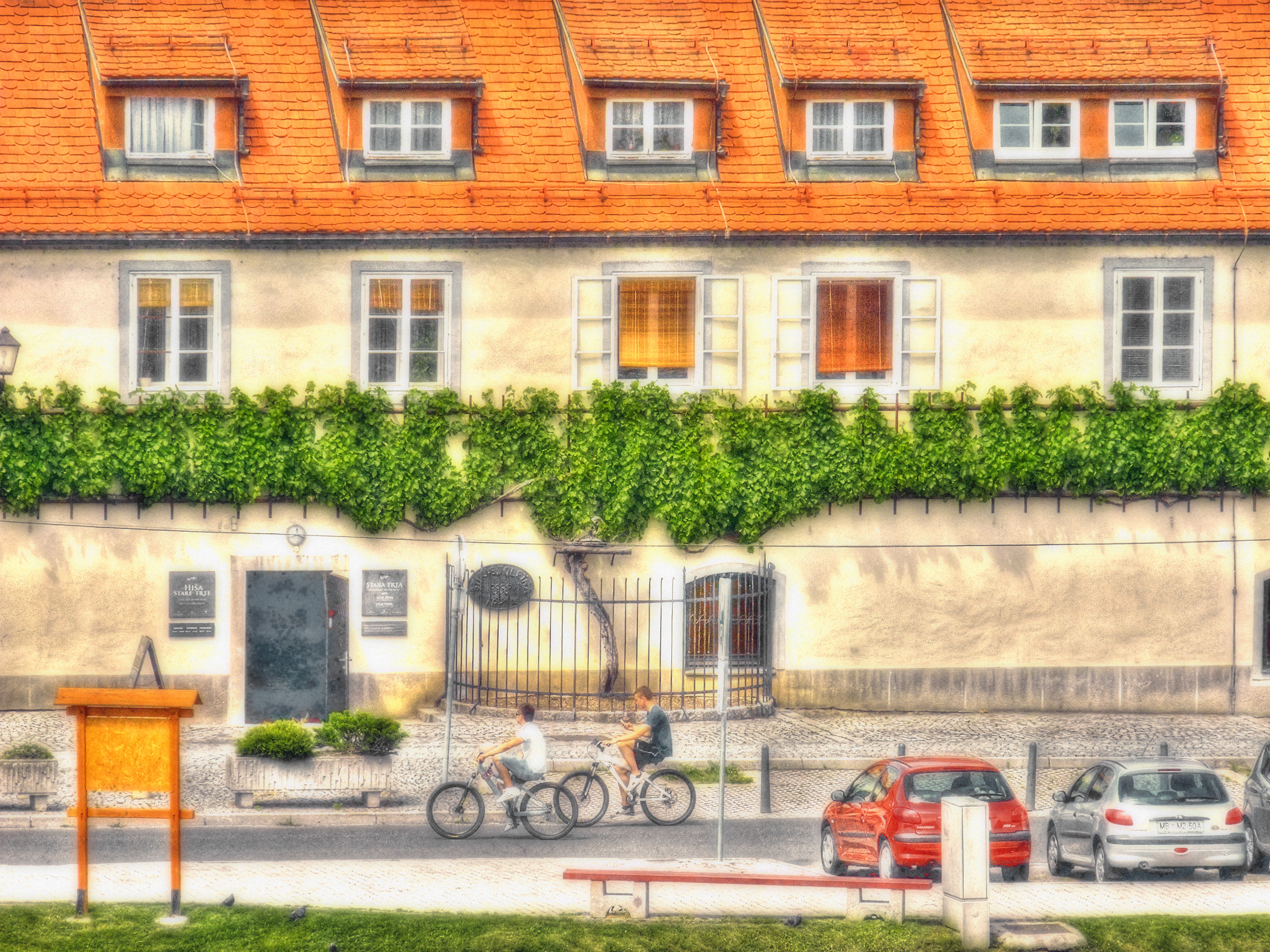 The old VineCreeper house of Maribor City